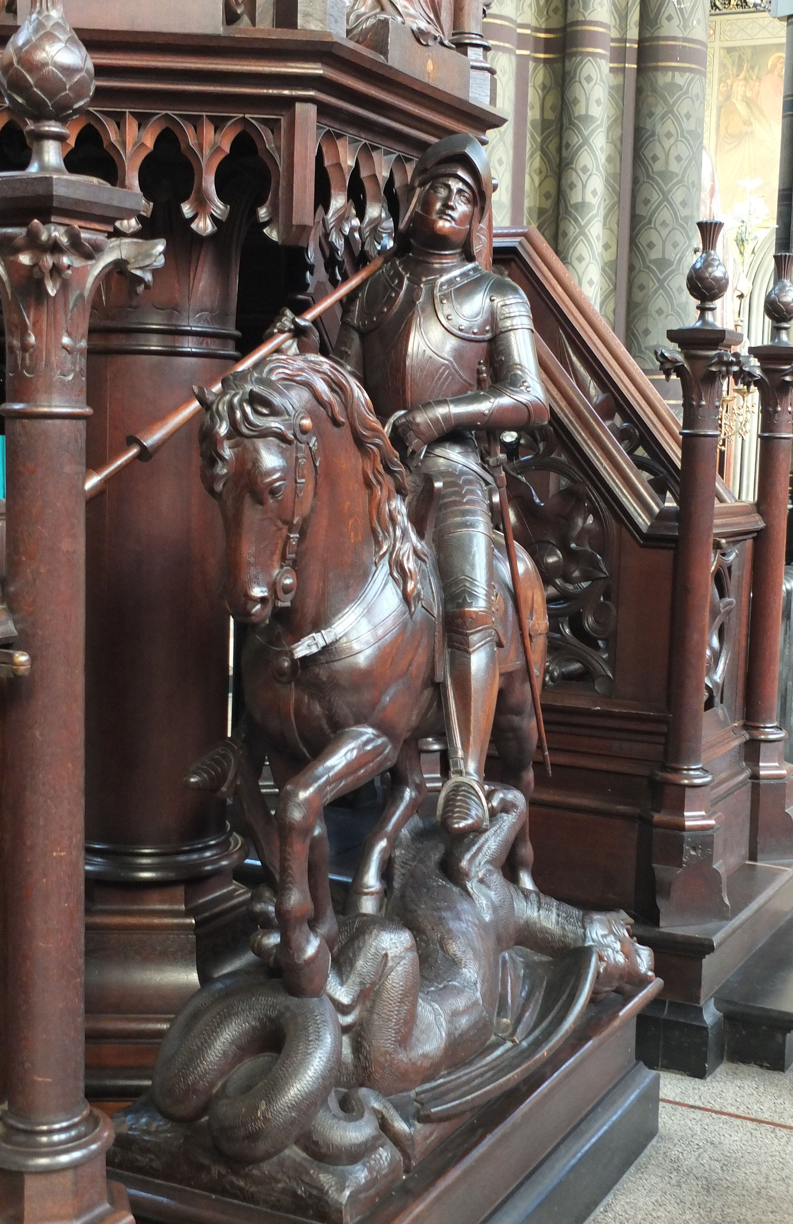 Pulpit in St-George's Church in Antwerp by the brothers Durlet (1867) with a St-George slaying the dragon by Joseph Ducaju.